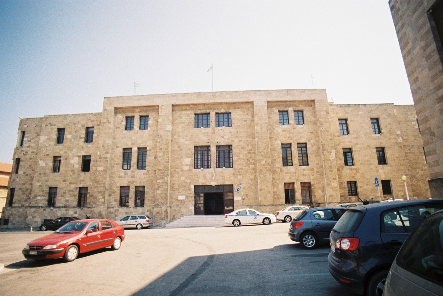 Entrance side of Palazzo della Forze Armate Rodi (or Sede della Polizia) Architect unknown.The buildings is of local stone the schema following an academic regime.it faces La Piazza dell'Impero (or, from 1940, Piazza Balbo) from where the photograph was taken.